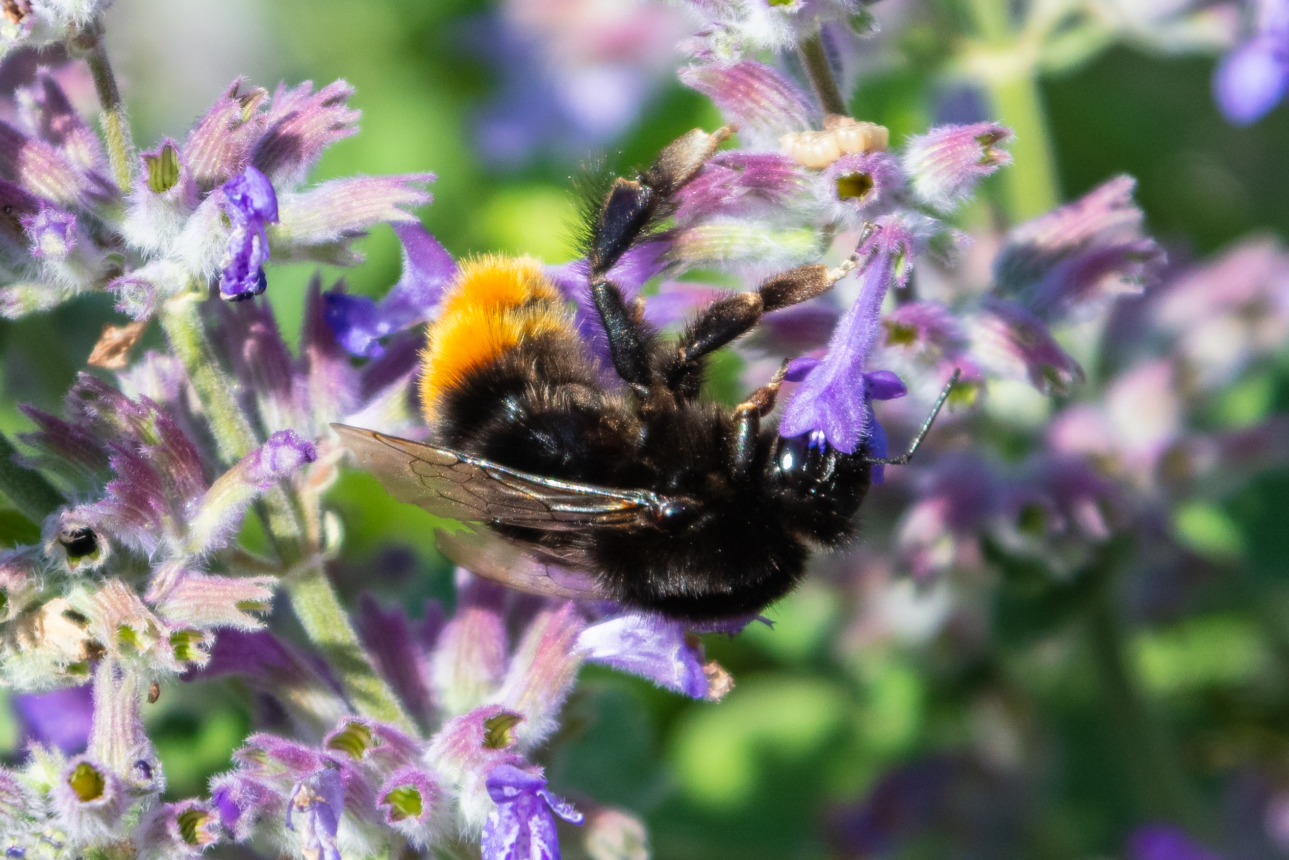 Red-tailed bumblebee (Bombus lapidarius), Bad Wörishofen, Germany